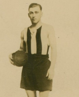 Photograph of Eric Cock from 1923-1924